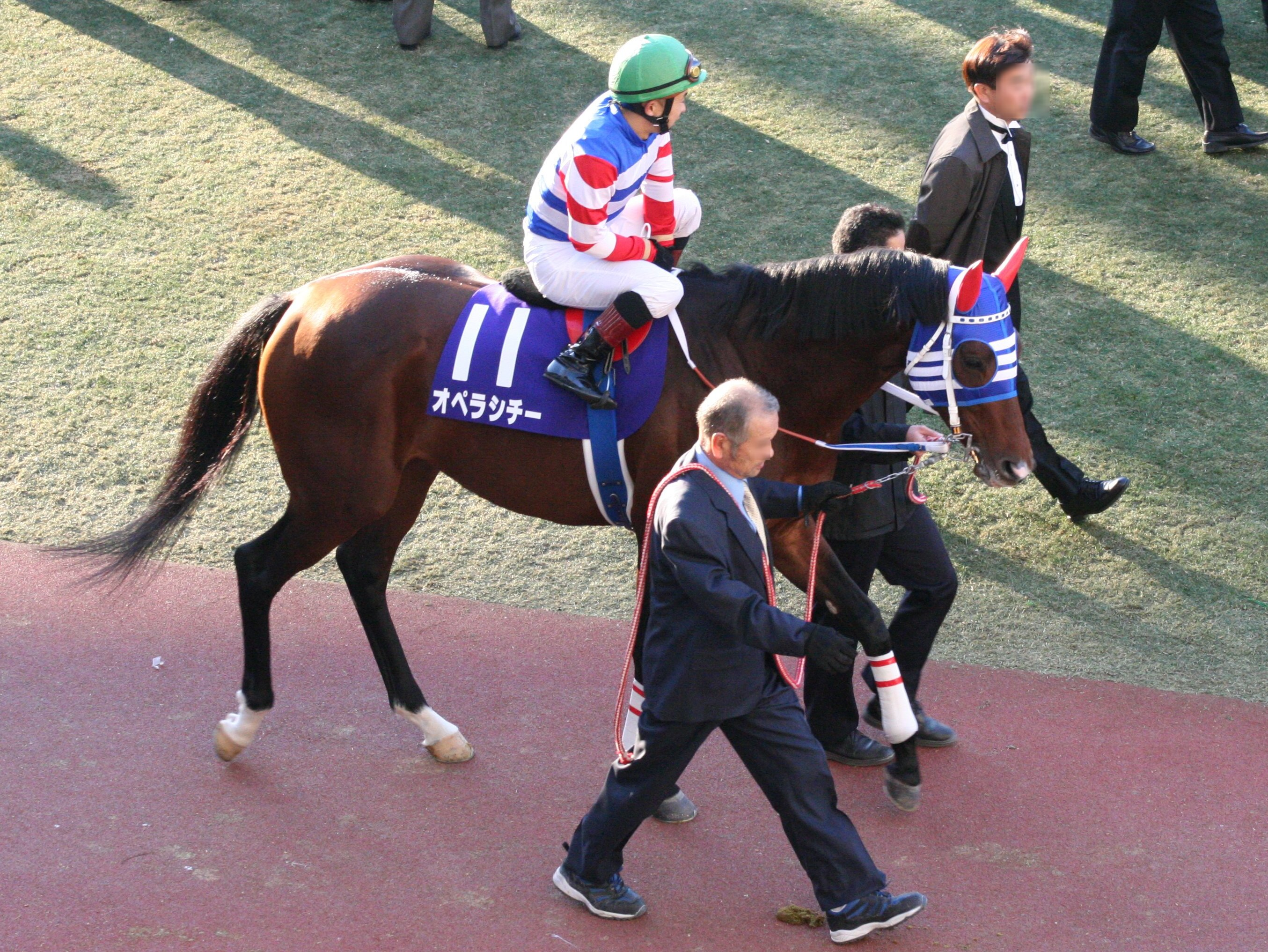 Opera City